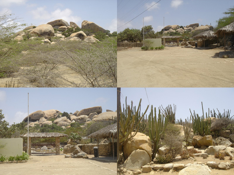 Photos of the rock formation at Ayo on the island of Aruba. Photos taken by Don Rosborough in June 2006 --Dje9537459| 00:58, 30 July 2006 (UTC)